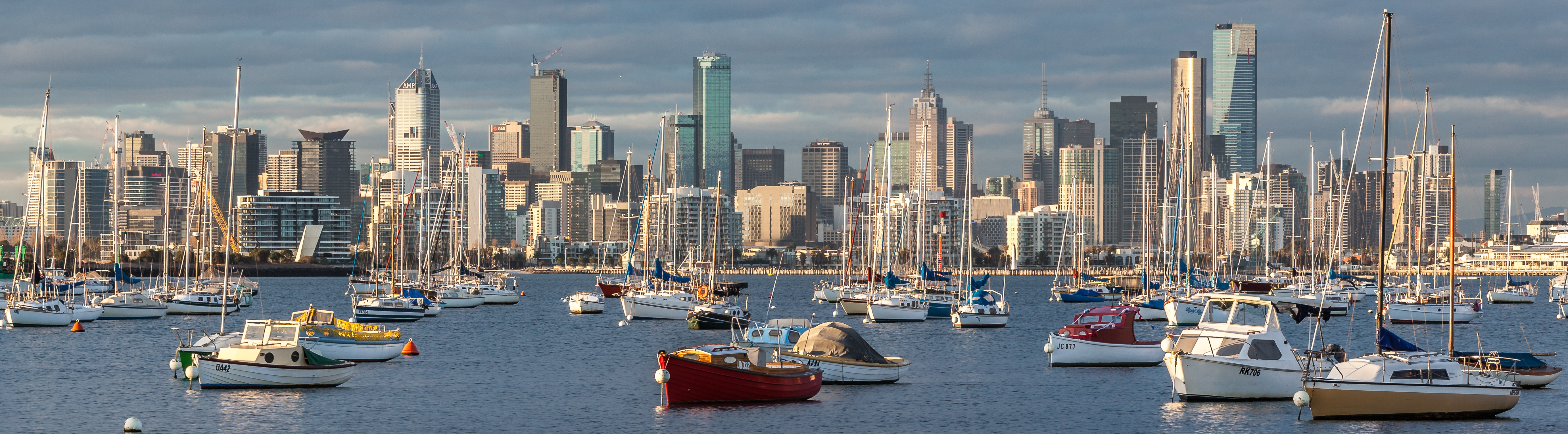 Melbourne skyline in 2015, as viewed from Williamstown